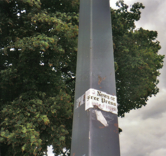 Bumper sticker from the Detroit Newspaper strike in the mid 1990s